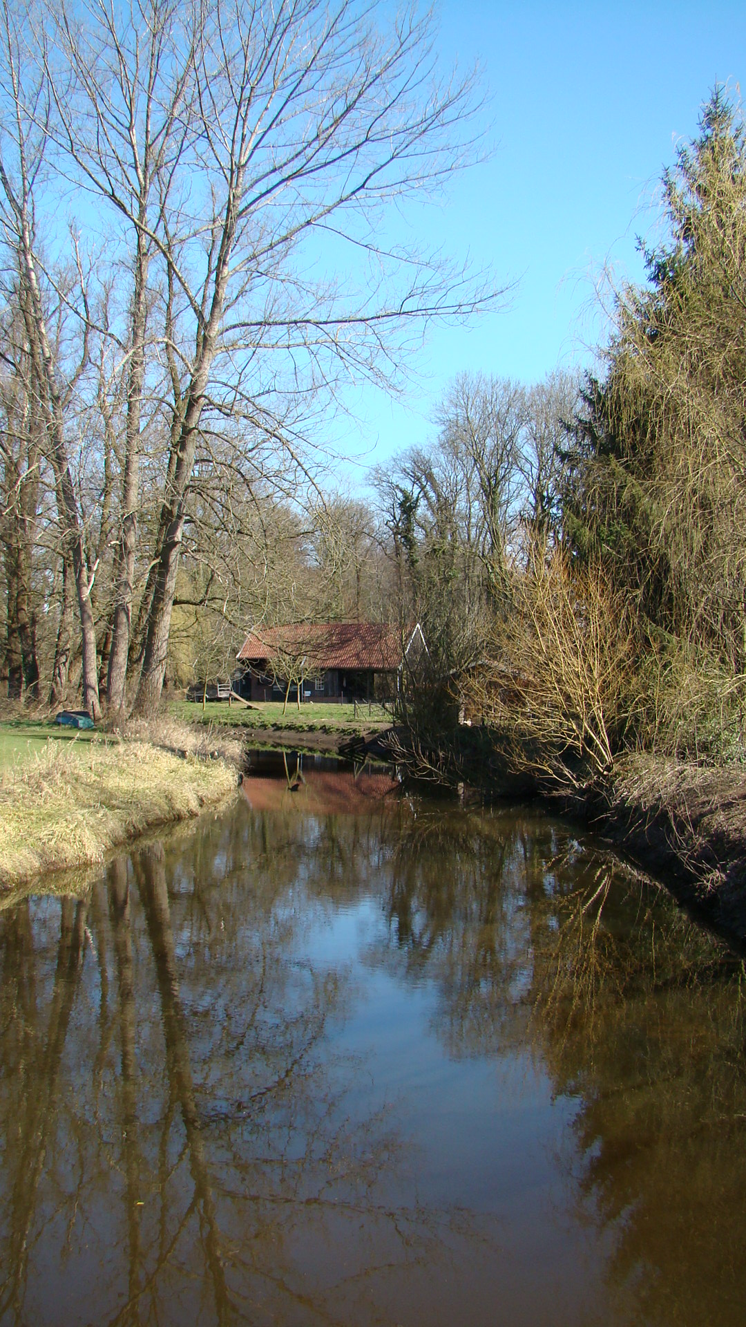 River Bovenslinge at Berenschot, Bekkendelle, Winterswijk, The Netherlands